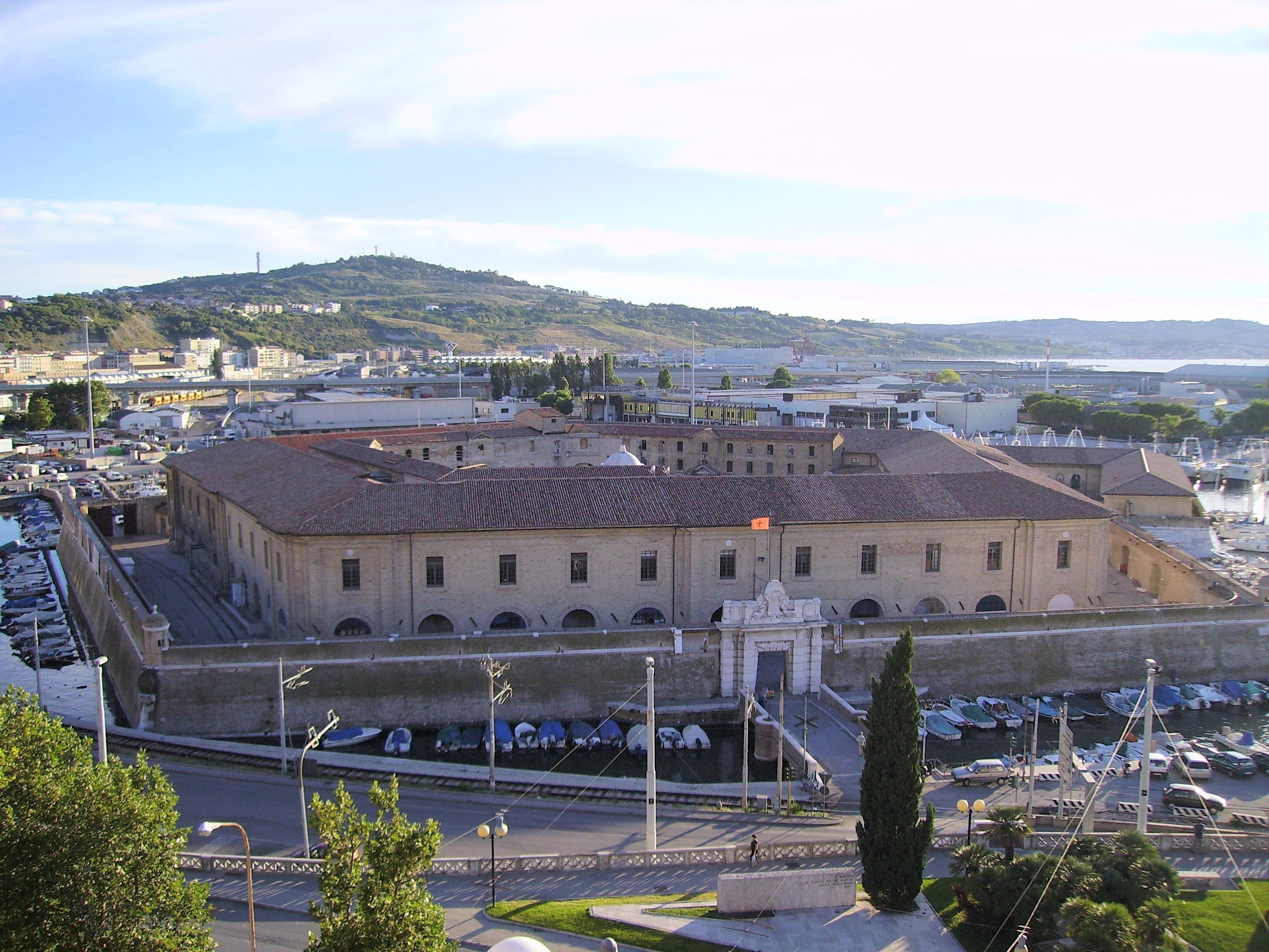 The Vanvitelli's Lazzaretto, project of the architect Luigi Vanvitelli.